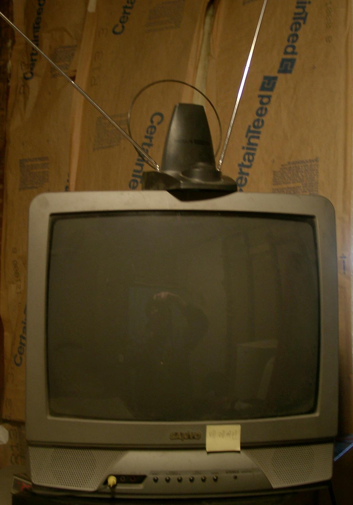 tv with vhf and uhf antenna